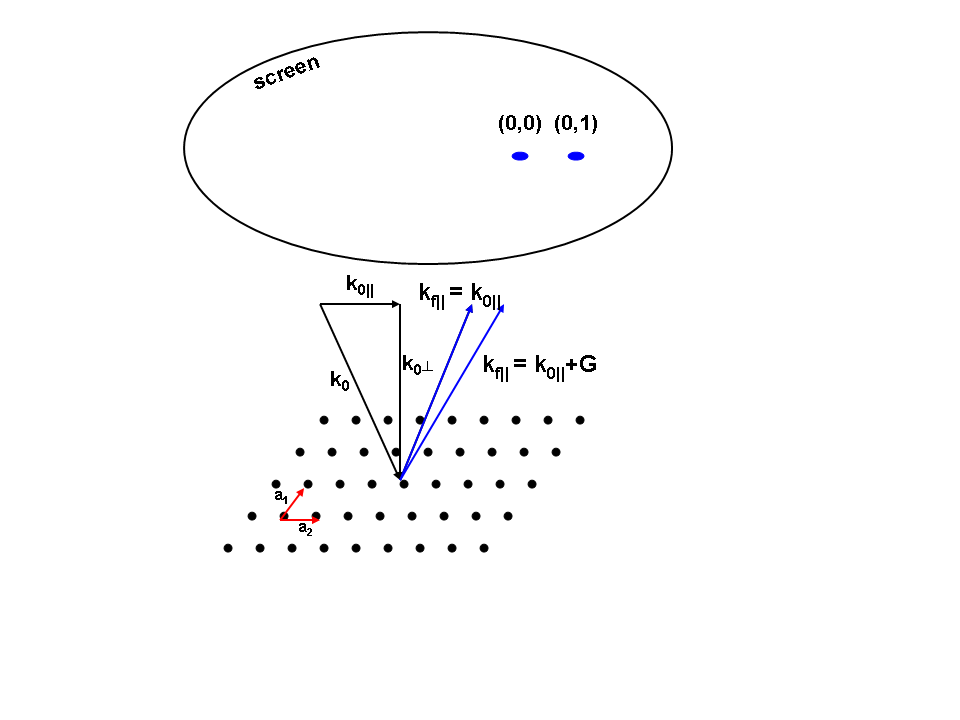 Electron scattering by a surface lattice.